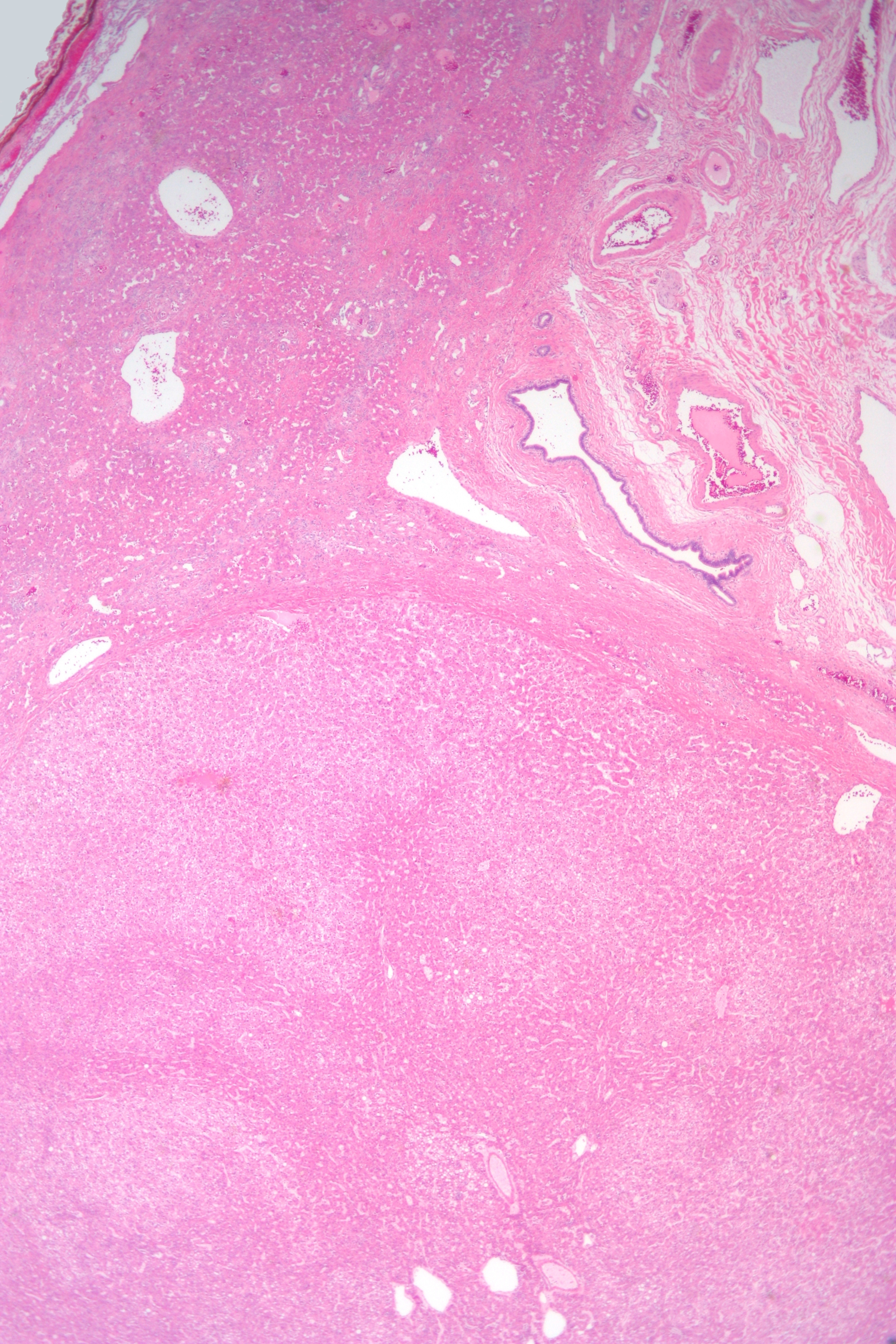 Low magnification micrograph of a hepatic adenoma. H&E stain. Features: Well-circumscribed nodule that consists of: Sheets of hepatocytes with bubbly vacuolated cytoplasm - that are on a regular reticulin scaffold and less or equal to three cell thick. Lack identifiable portal triad (consisting of bile ductule, venule and arteriole). Related images Low mag. High mag. Low mag. (reticulin) High mag. (reticulin)